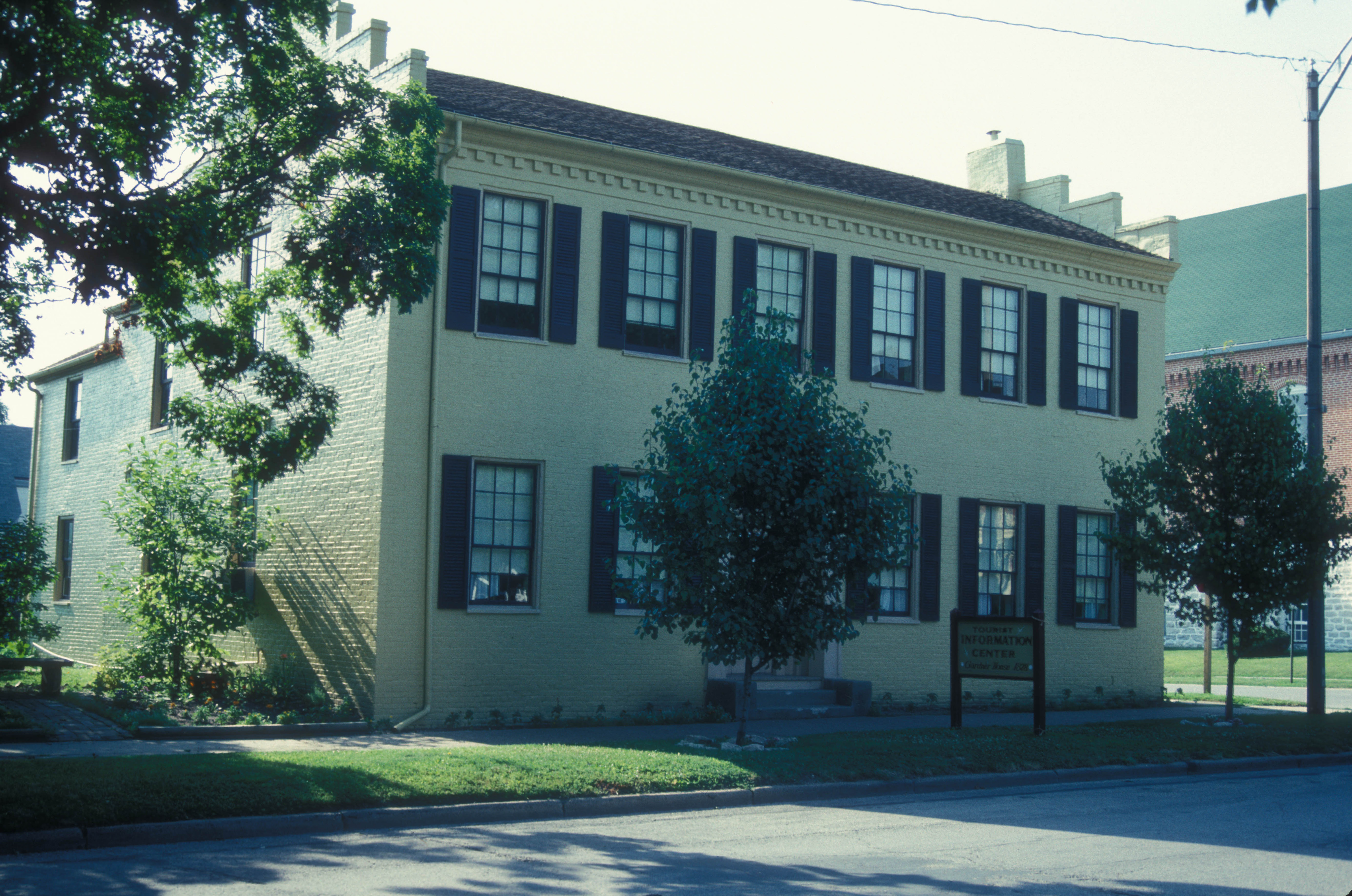 1828; SERVED AS A TAVERN BETWEEN ST. LOUIS AND IOWA